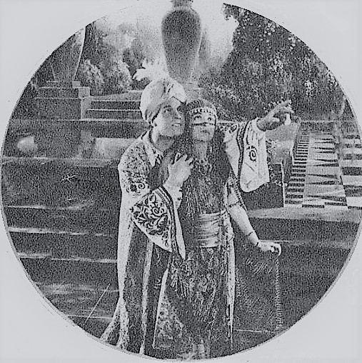 Ramon Novarro e Kathleen Key in A Lover's Oath (1925).